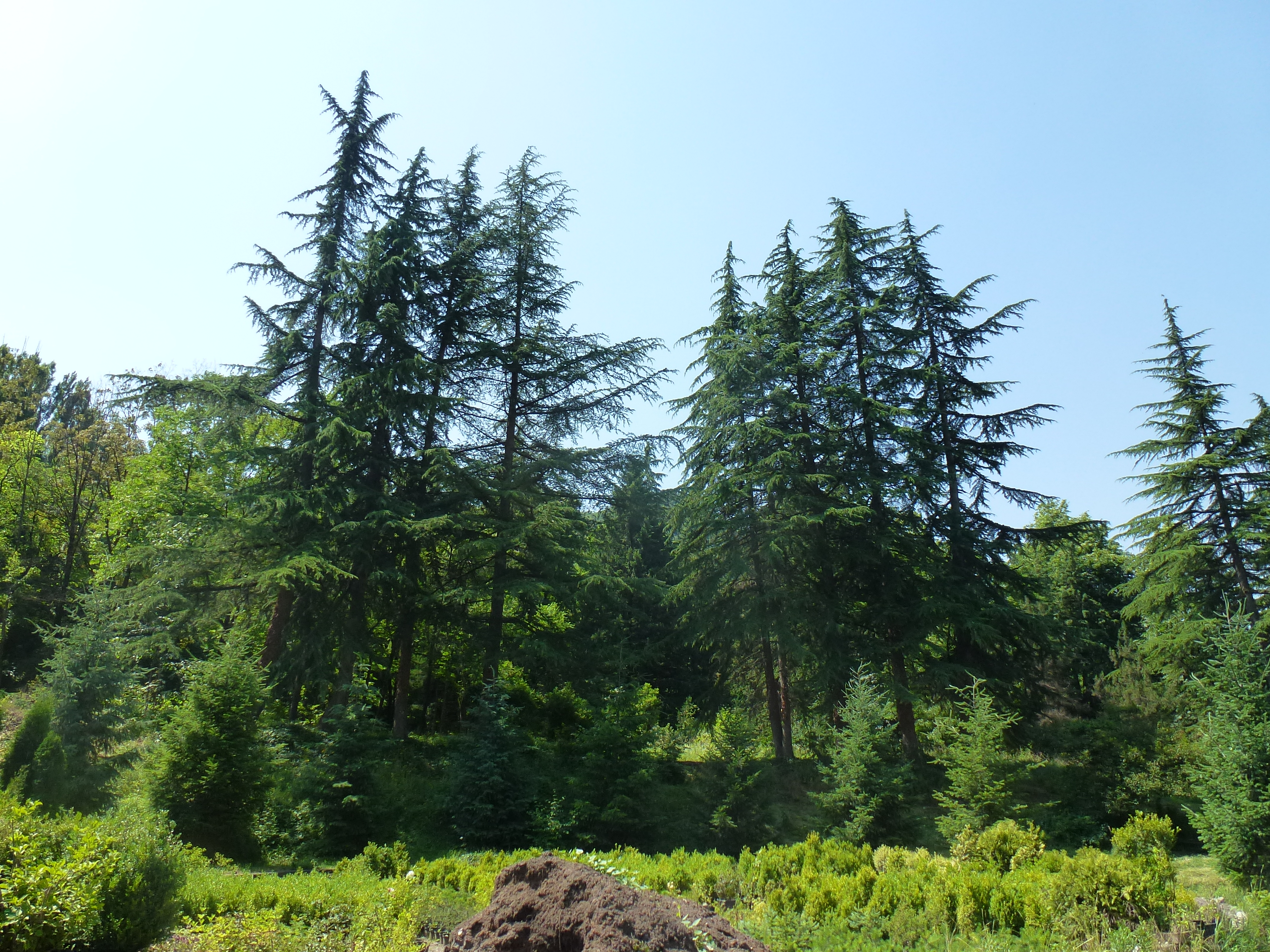 Denropark in Ijevan